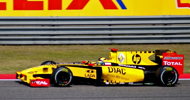 Yellow helm - Robert Kubica.